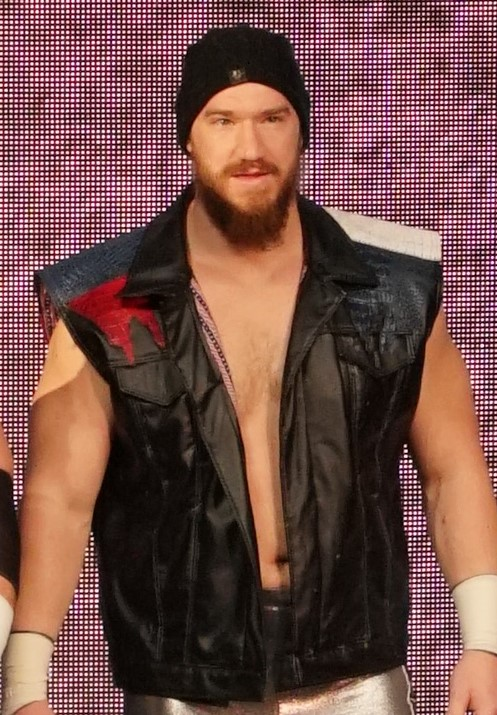 Wesley Blake at WWE Axxess in April 2018.